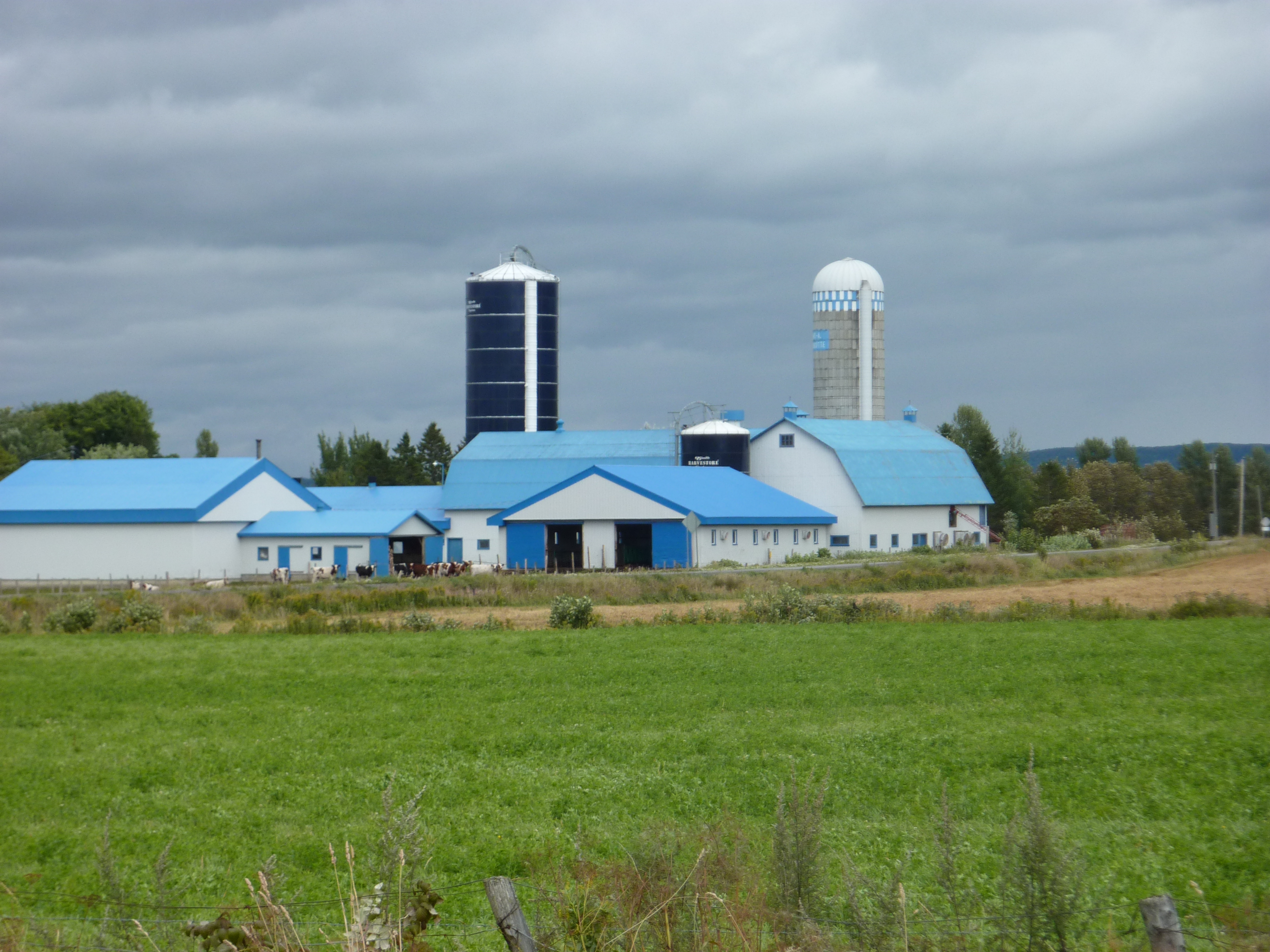 Farm at Val-Brillant, Qc